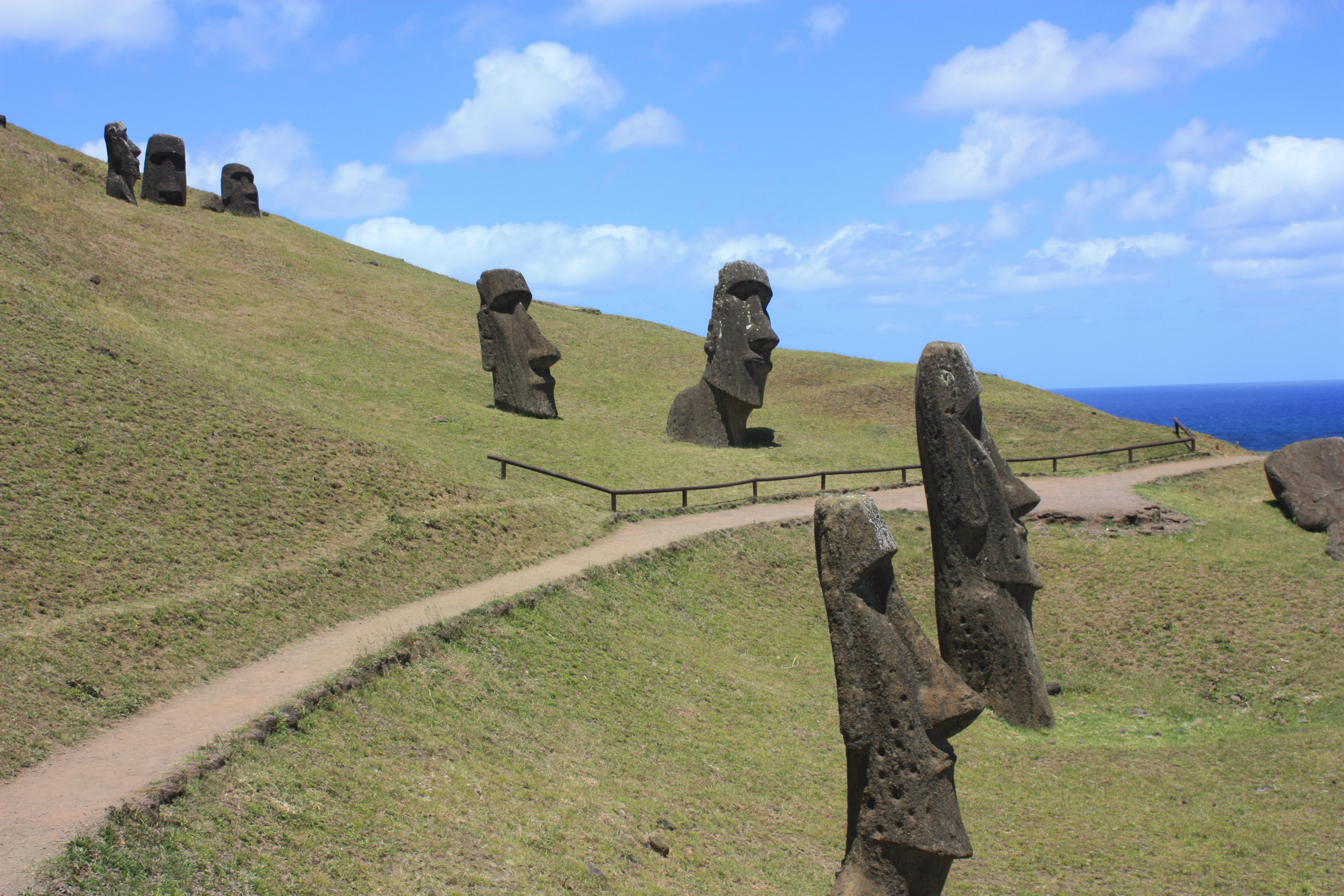 Easter Island, Rano Raraku